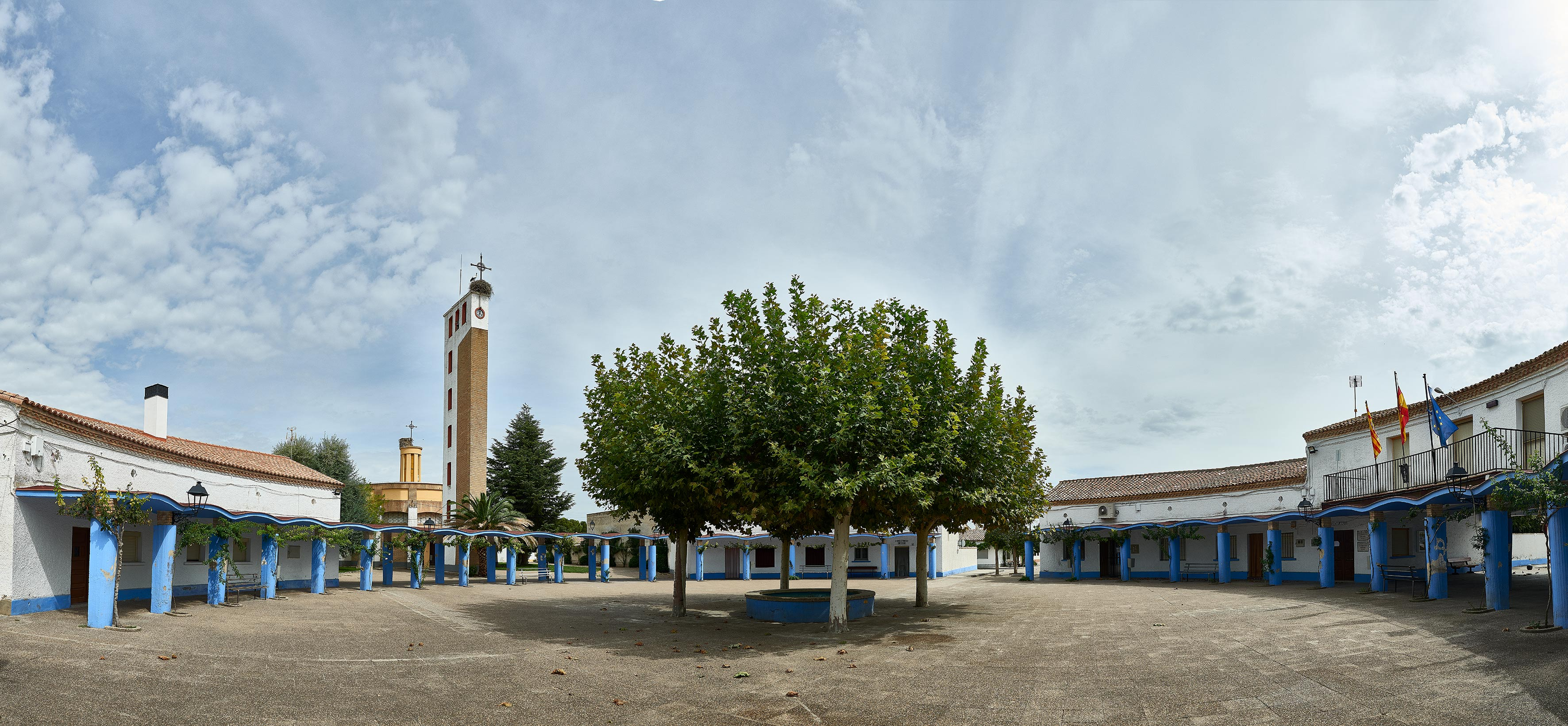 Sancho Abarca Central Square